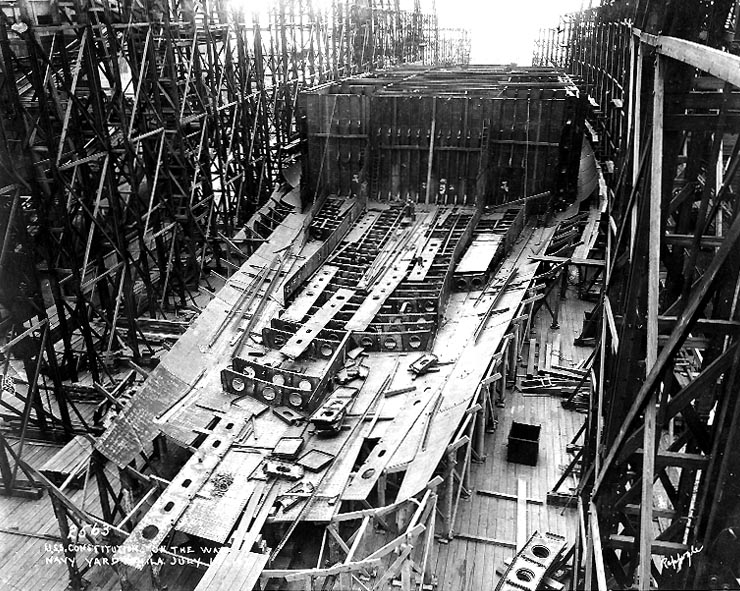 USS Constitution (CC-5) under construction at the Philadelphia Navy Yard, Pennsylvania, 14 July 1921. Photographed by Replugle, looking aft from the bow area with the bulkhead at Frame 75 in the center. The double bottom beneath the forward magazines is being installed in front of that bulkhead. Construction of this ship was halted by the Naval Limitations Treaty in February 1922. Original caption: “Photo # NH 75498 USS Constitution under construction at Philadelphia Navy Yard, 14 July 1921” — removed caption